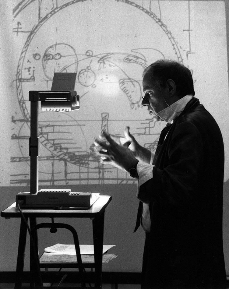 Architect Axel Schultes presenting his work for the design competion reoganisation of the Hindenburgplatz in Münster, Germany on 4 October 1993.